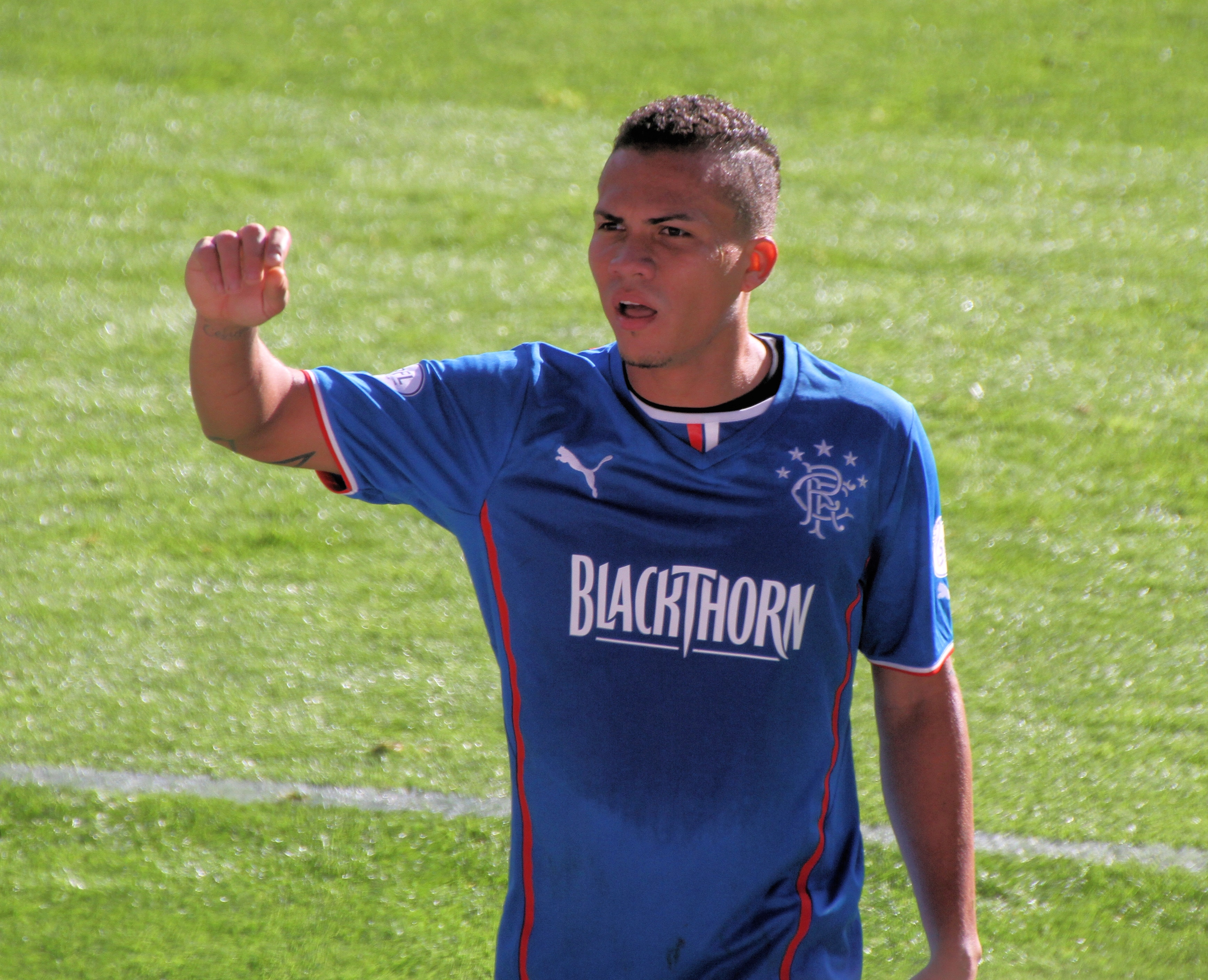 Arnold Peralta playing for Rangers F.C.